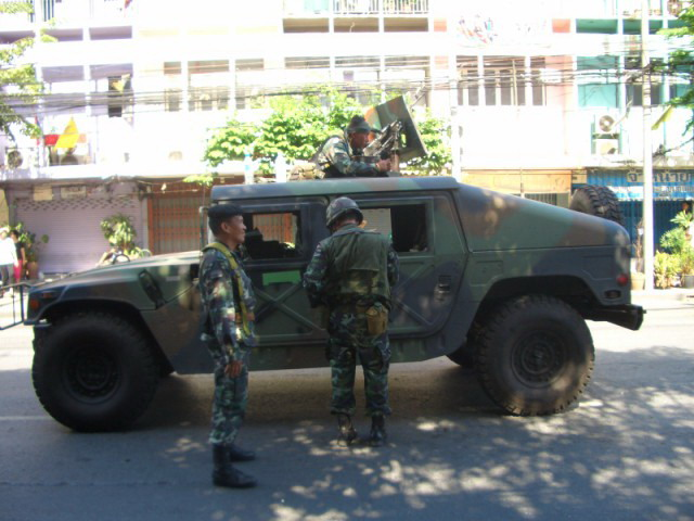 Thai army Humvee at Ratchaprarop road, Bangkok. Taken during the red shirt riots; 13 April 2009.